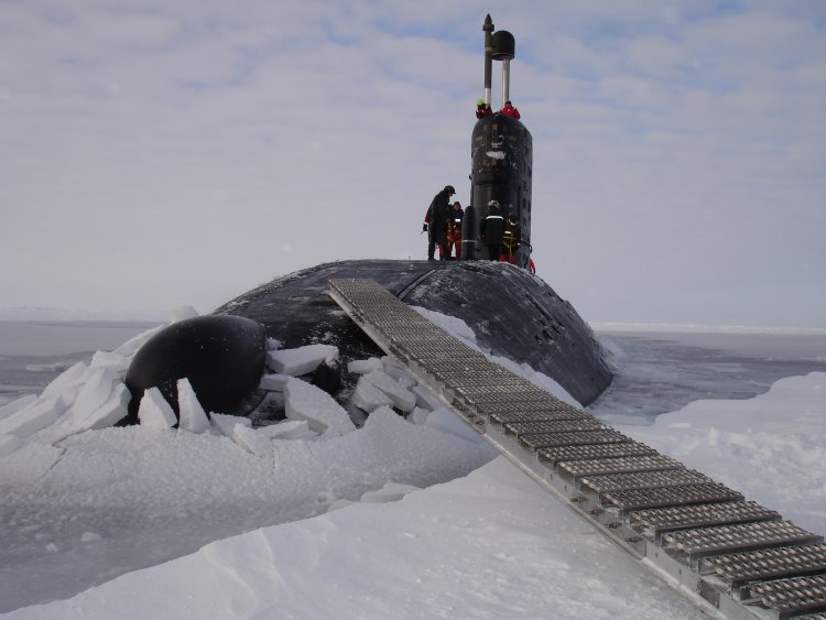 The HMS Tireless protruding from Arctic ice with a boarding ramp.